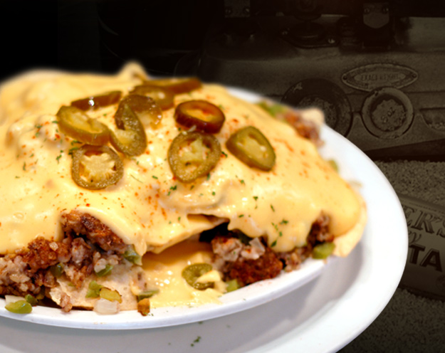 Picture of German Nachos I made